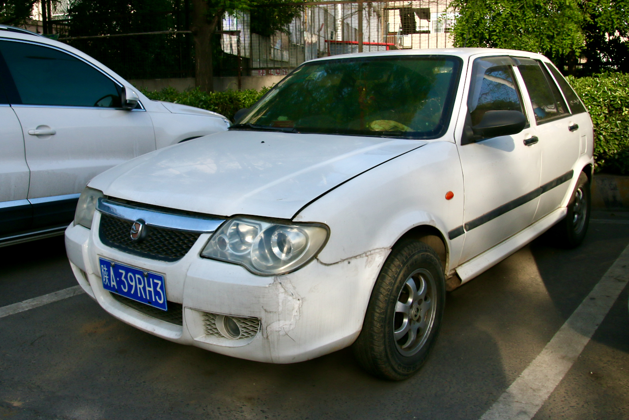 Front view of the 2007 Nanjing Yuejin NJ7150B Soyat in Xi'an, China